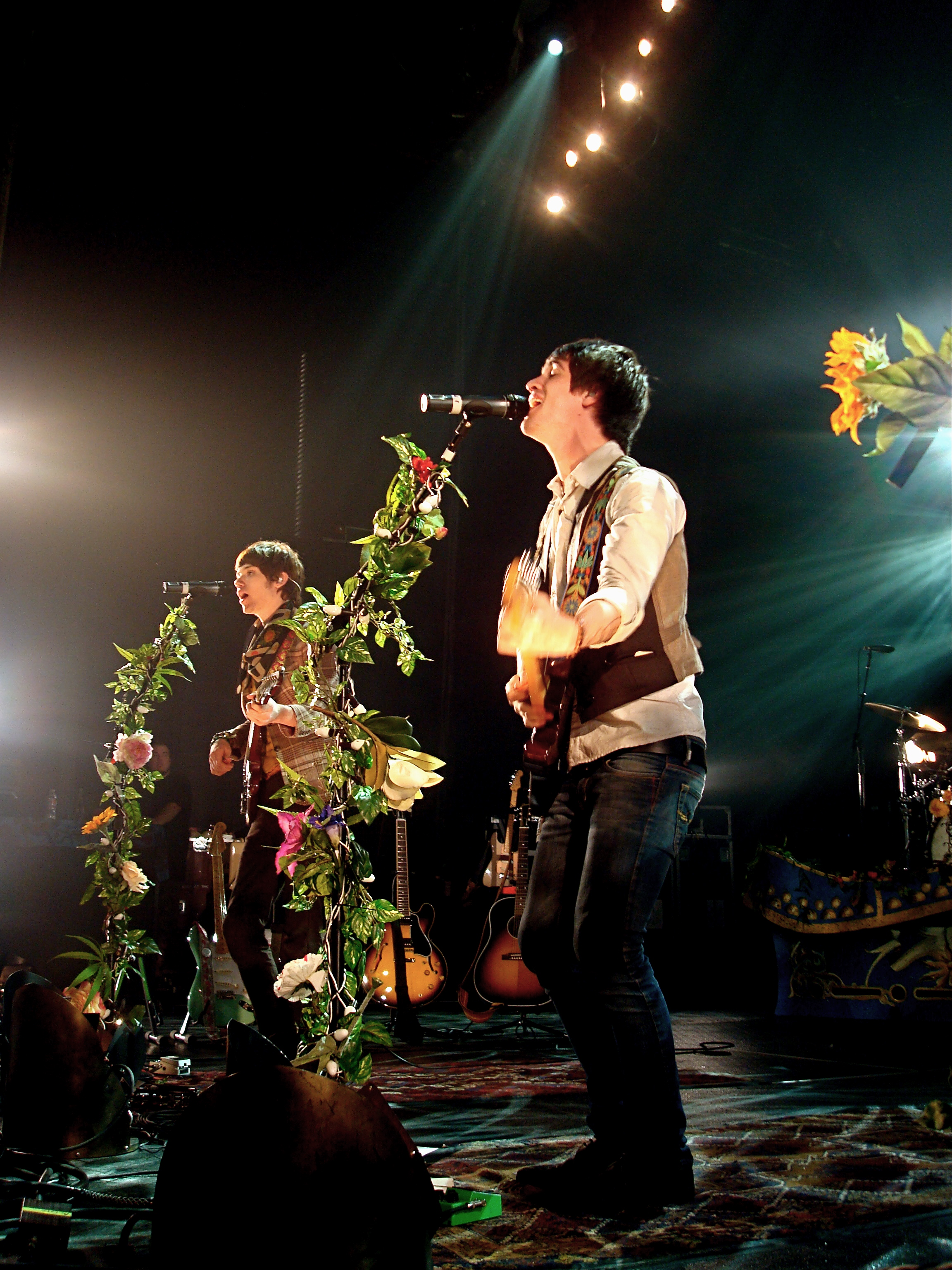 Panic at the Disco's Ryan Ross and Brendon Urie performing at the Honda Civic Tour in Houston, TX at The Verizon Wireless Theater on April 20, 2008.